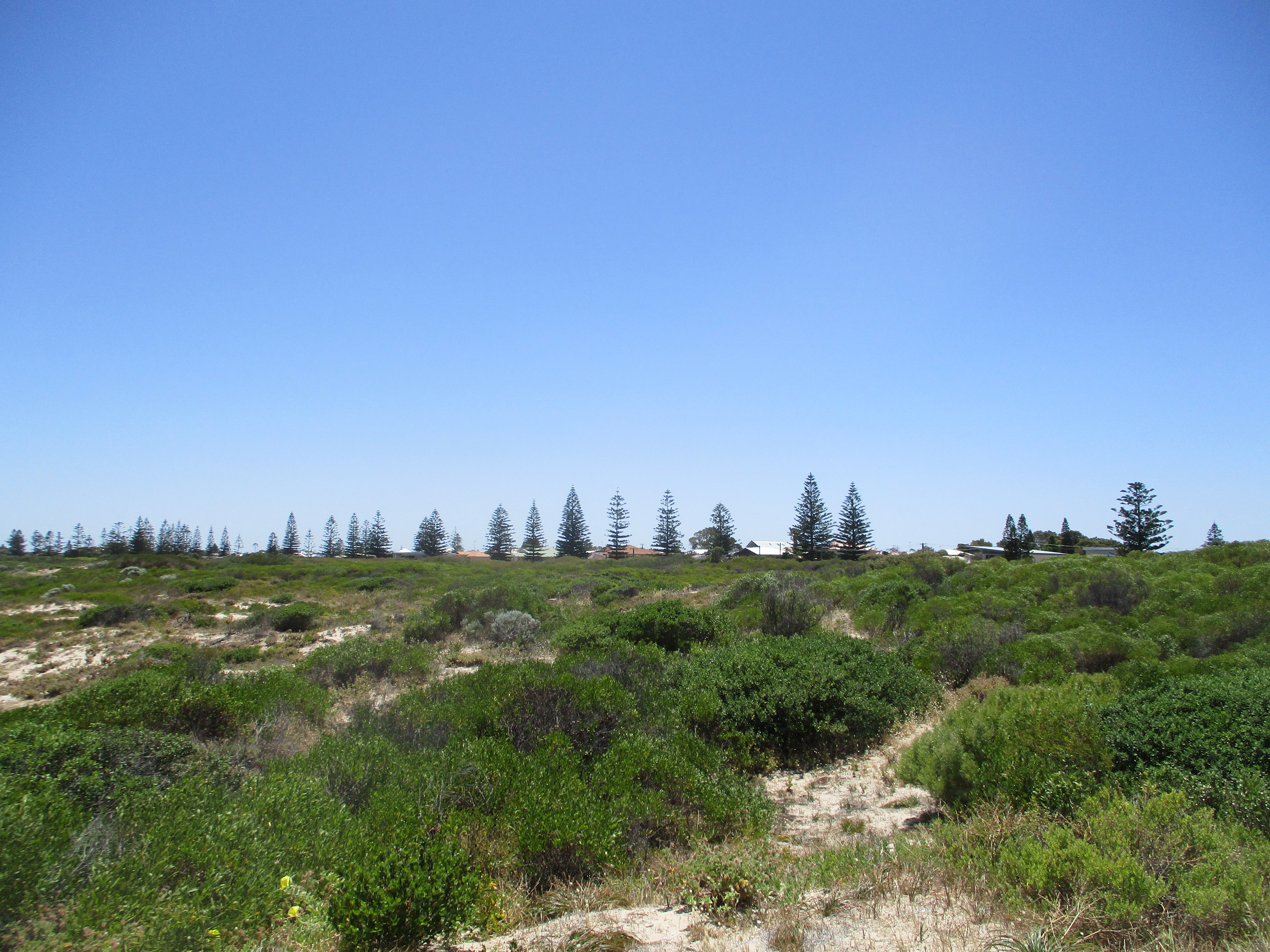 Golden Bay, Western Australia, view from the foreshore. Looking east from the car park at the western end of Crystaluna Drive.